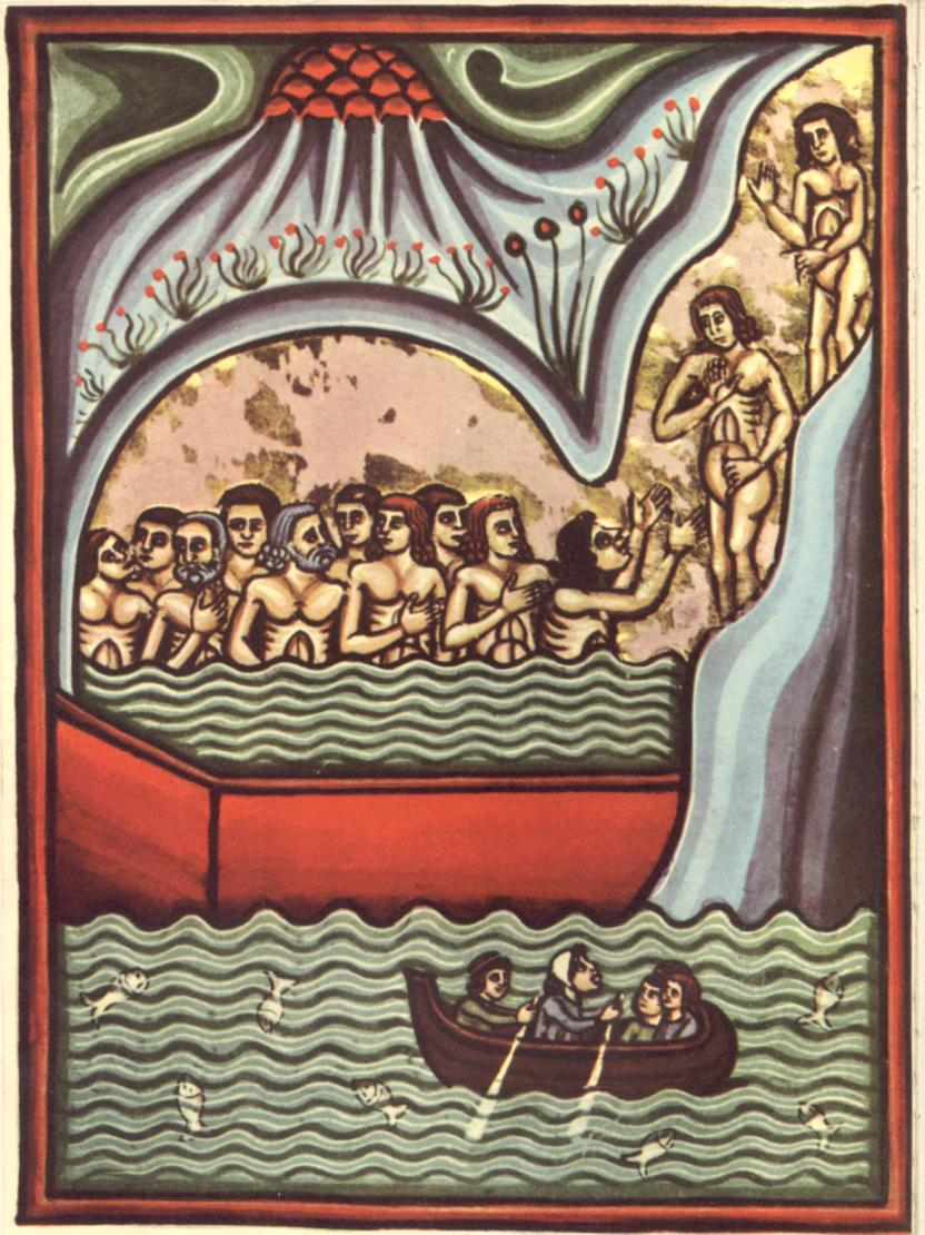 Page from a De Balneis Puteolanis (show the Balneum Culmae) - Manuscript of Petrus de Ebulo. Version of Biblioteca Angelica de Rome.